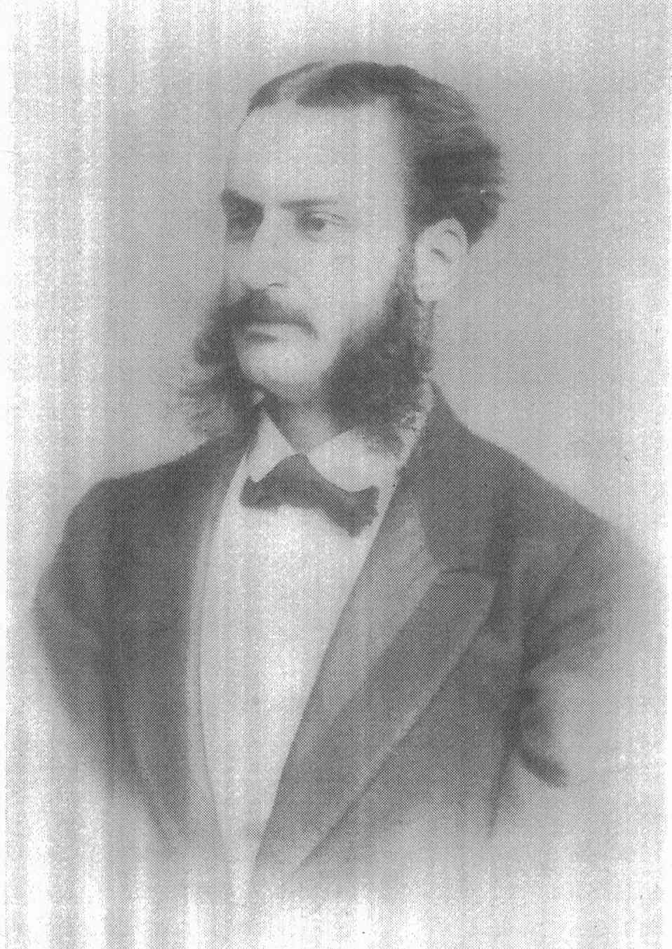 B/W photographic portrait of Ludwig Simon Moritz Freiherr von Bethmann (1844-1902) in book, "Die Bethmanns" by Claus Helbing, published in Wiesbaden (Germany) in 1948